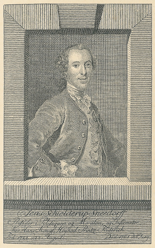 Jens Schielderup Sneedorff. Copperplate dated 1764 made by Johannes Samuel Lymann (1742-1769).